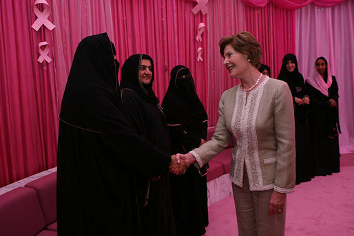 Mrs. Laura Bush meets one-on-one with women in the Pink Majlis Monday, Oct. 22, 2007, at the Sheikh Khalifa Medical Center in Abu Dhabi, United Arab Emirates. The Majlis is a tradition of open forum for a wide range of topics. The Majlis focuses issues related to breast cancer. White House photo by Shealah Craighead